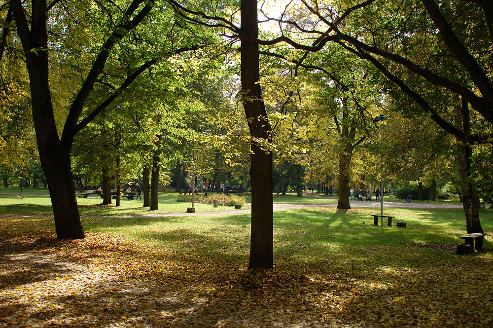 Sereikiškės Park in Vilnius